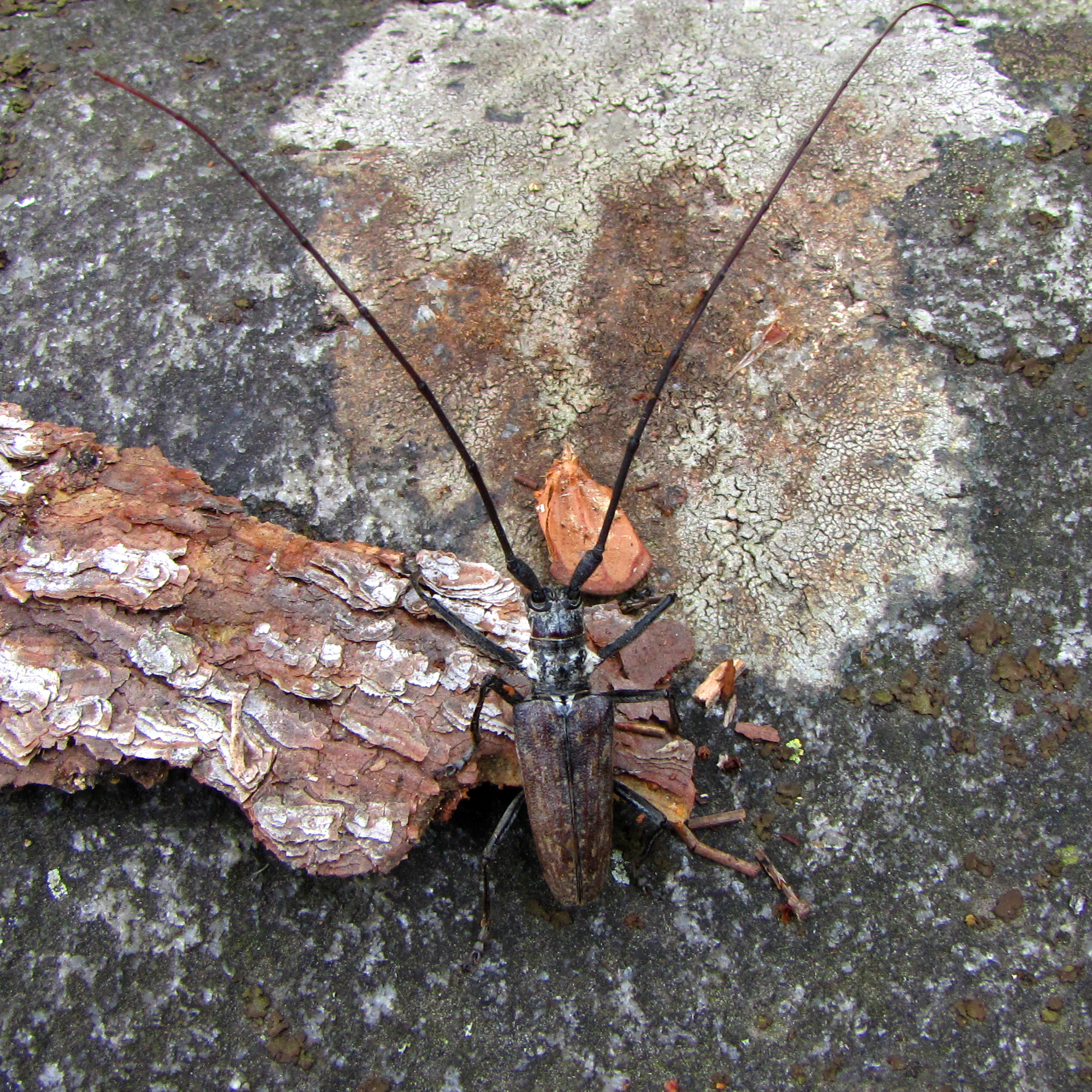 Notable Sawyer (Monochamus notatus), Chiniguchi Waterway Provincial Park, Sudbury, Ontario, Canada